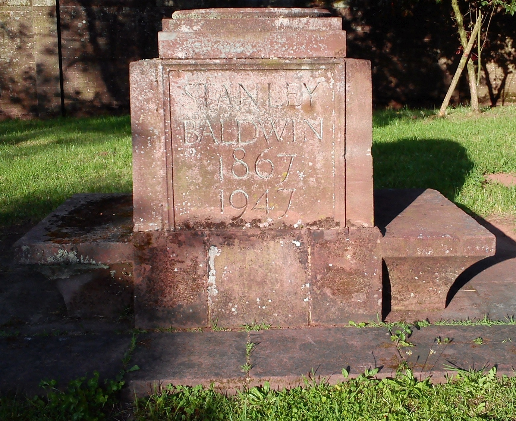 Astley, Worcestershire, memorial to Stanley Baldwin, 1st Earl Baldwin of Bewdley, KG PC FRS (1867–1947), three times Prime Minister of the United Kingdom